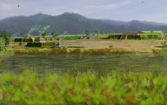 A digital illustration of the Kings Crossing Site in Warren County, Mississippi. The site is an archaeological site that is a type site for the Kings Crossing phase of the prehistoric Temple Mound period of the area. The site has three ceremonial platform mounds, with the tallest, Mound A, being 25 feet (7.6 m) in height